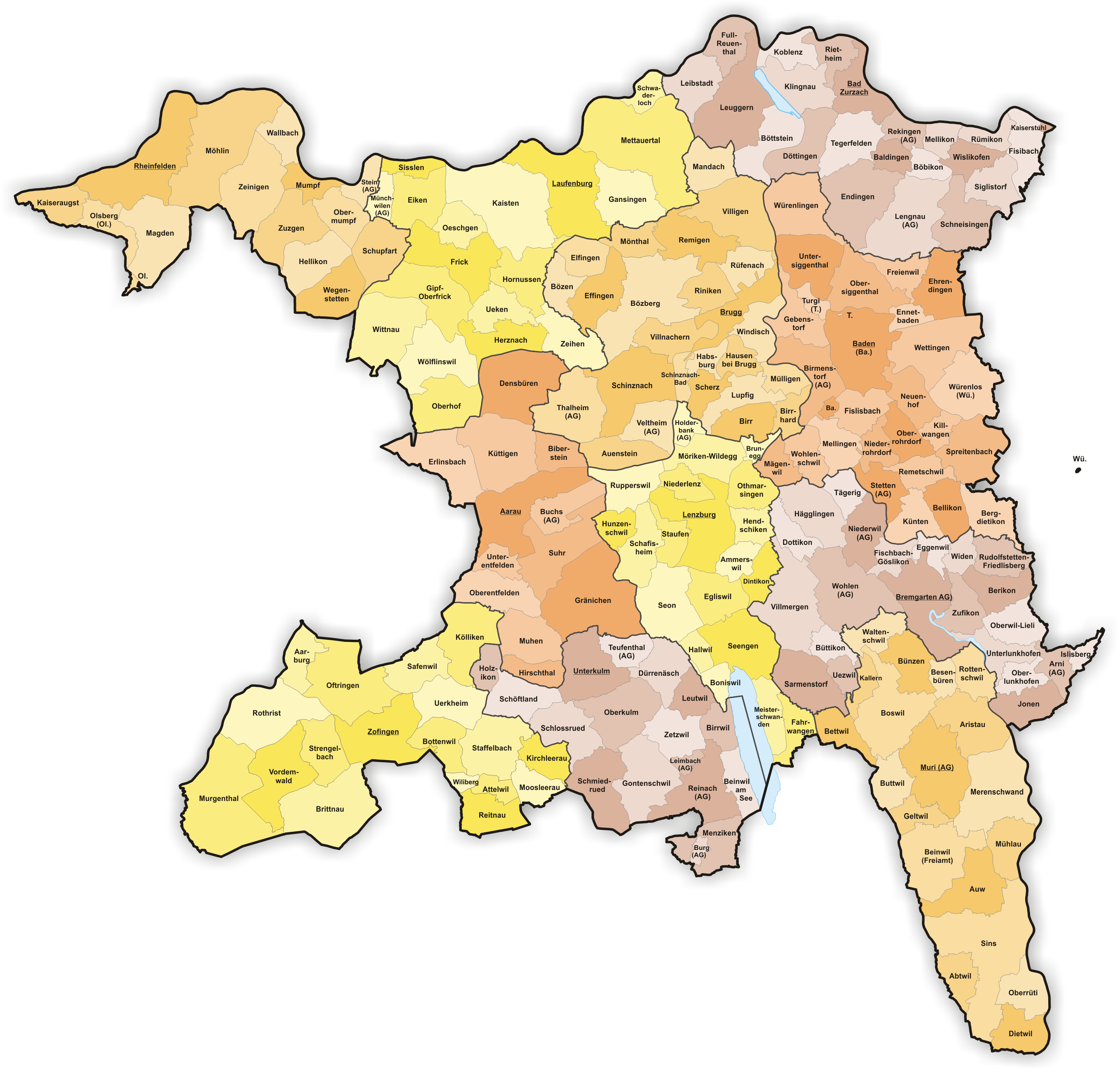 Municipalities in Canton Aargau